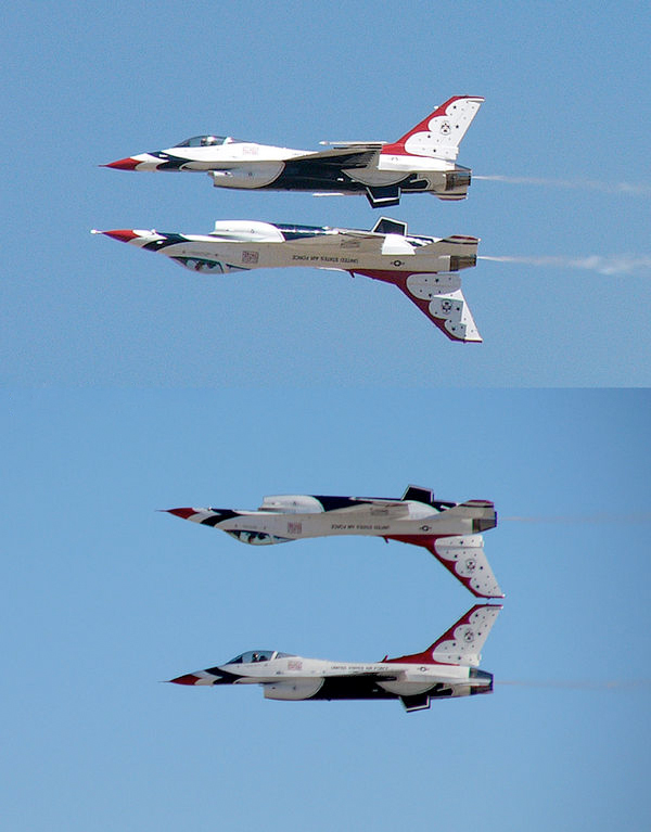 The USAF Thunderbirds opposing solos fly two mirror formations.